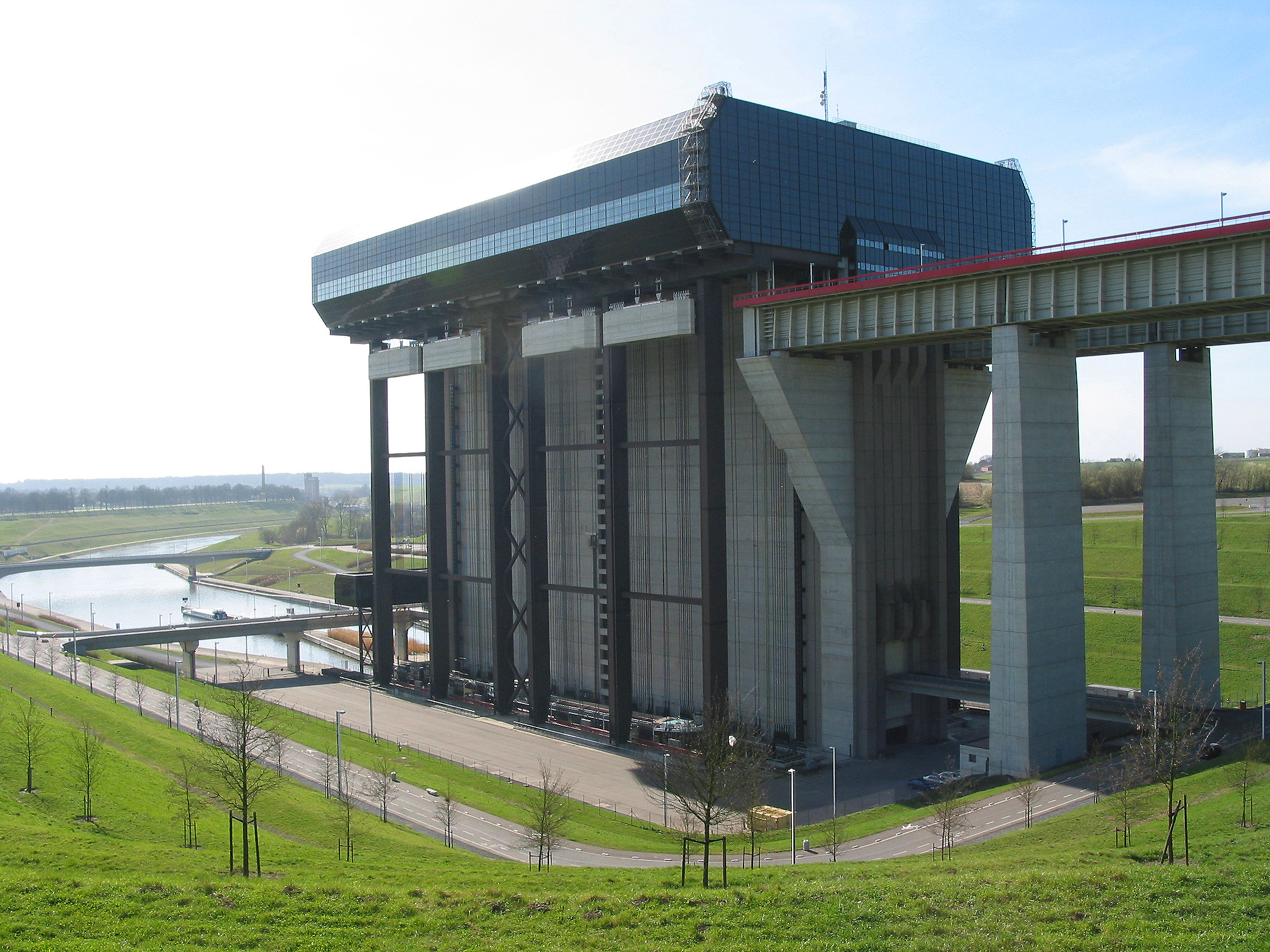 Strépy-Bracquegnies (Belgium), the bigest ship elevator in Europe.